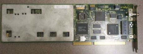 Picture of my own full-length NCR Wavelan ISA 915 MHz card.